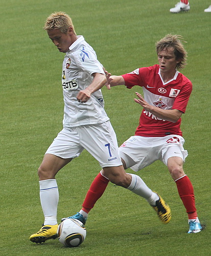 Keisuke Honda vs Zhano